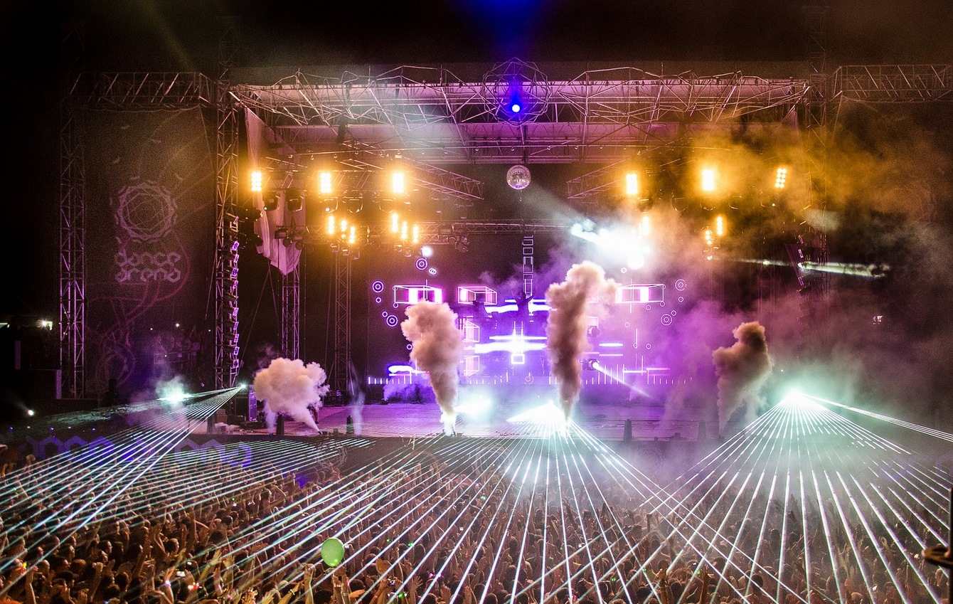 Crowd at David Guetta, Dance Arena, Exit 2013.Srpski (latinica): Publika na nastupu Dejvida Guete u Dens areni, Egzit 2013.